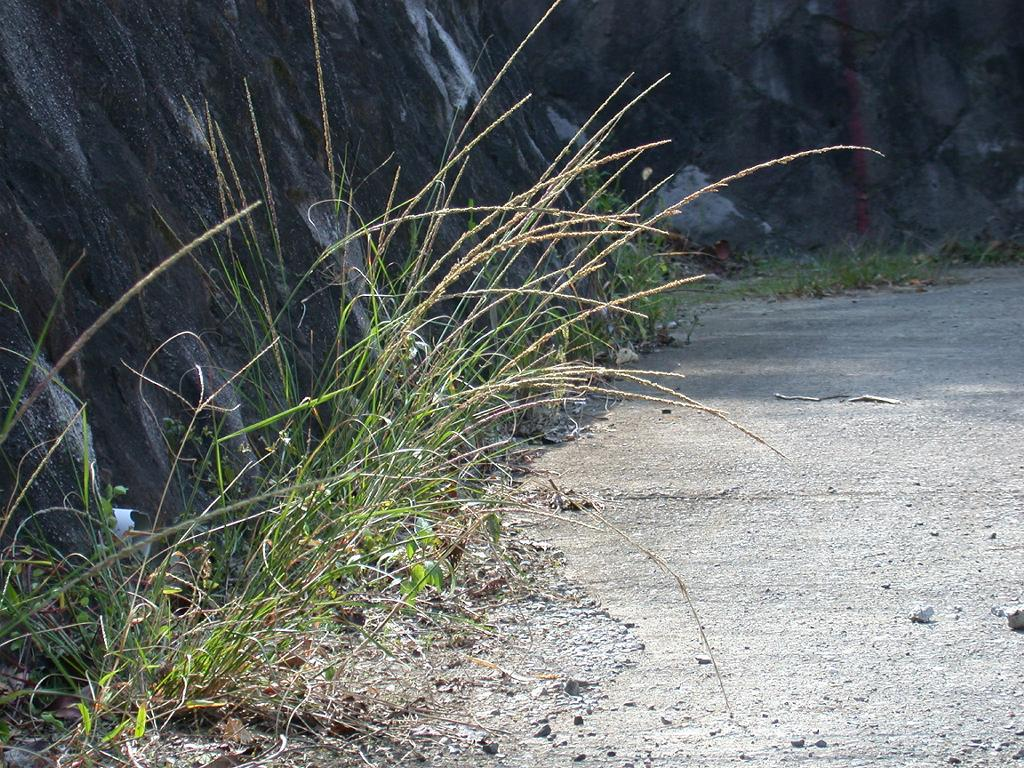 Sporobolus fertilis Date;2006,10;Tanabe city, Wakayama prefecture, Japan Author;Keisotyo